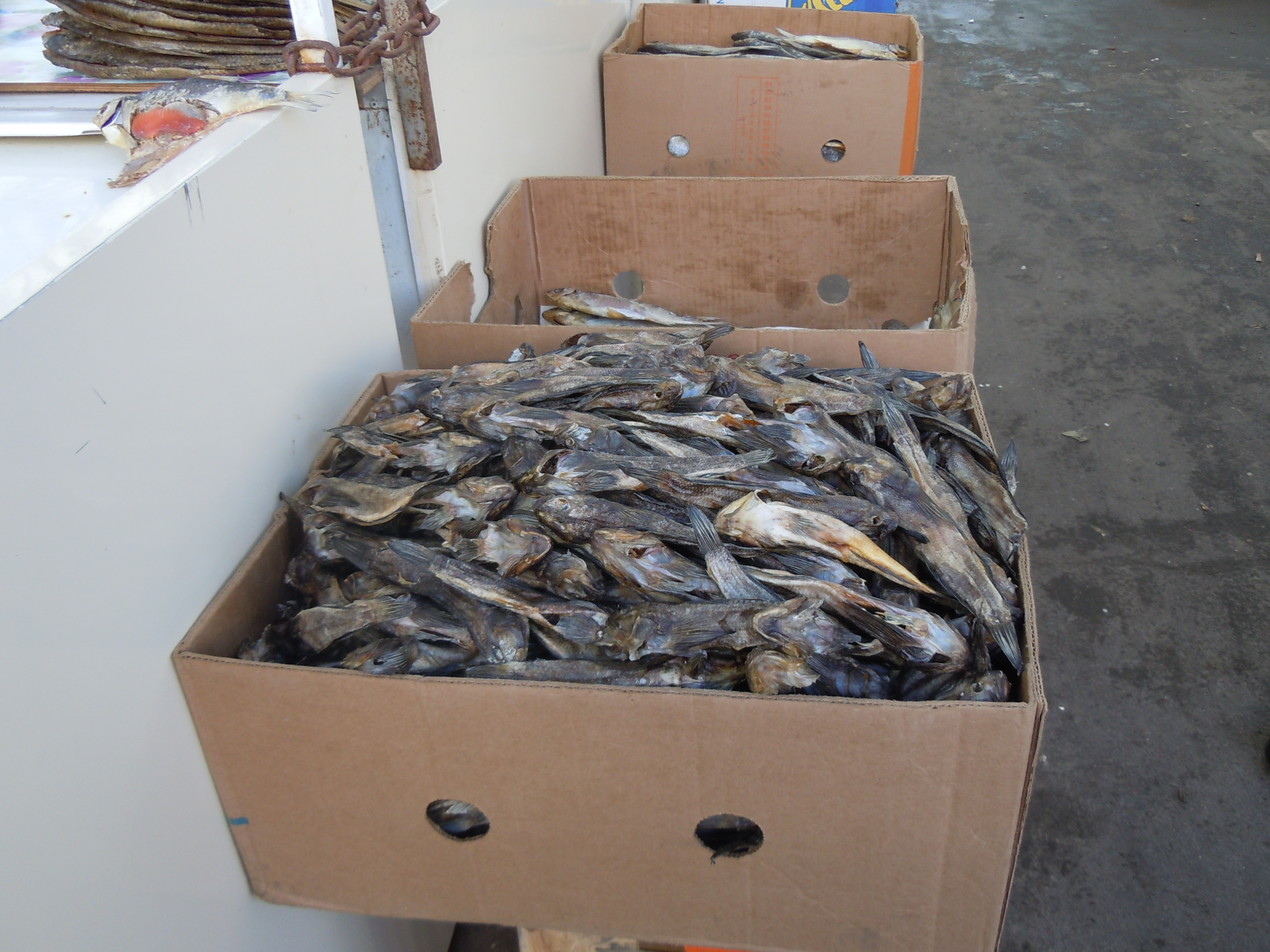 Dried gobies for sale at the Pryvoz Market in Odessa, Ukraine